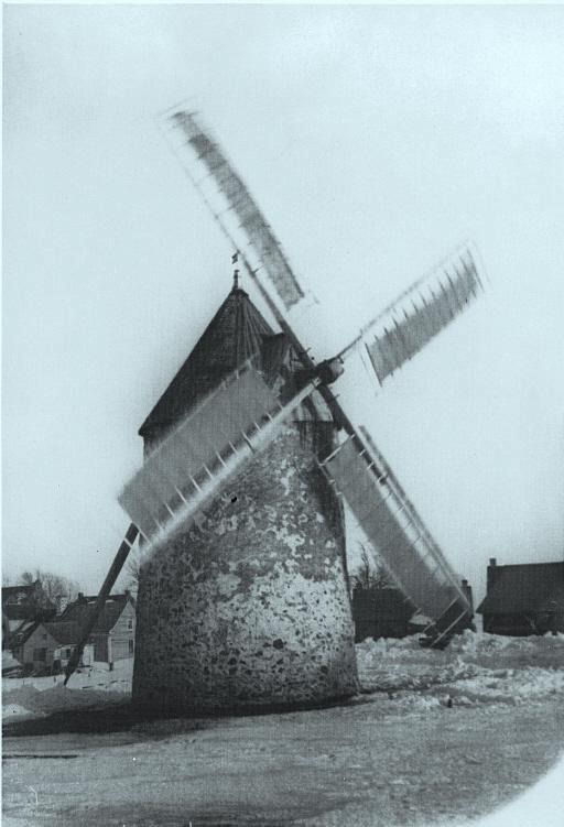 Photograph Windmill, Vercheres, near Montreal, QC, about 1865, copied ca.1935, Alexander Henderson. Silver salts on paper - Gelatin silver process - 25 x 20 cm